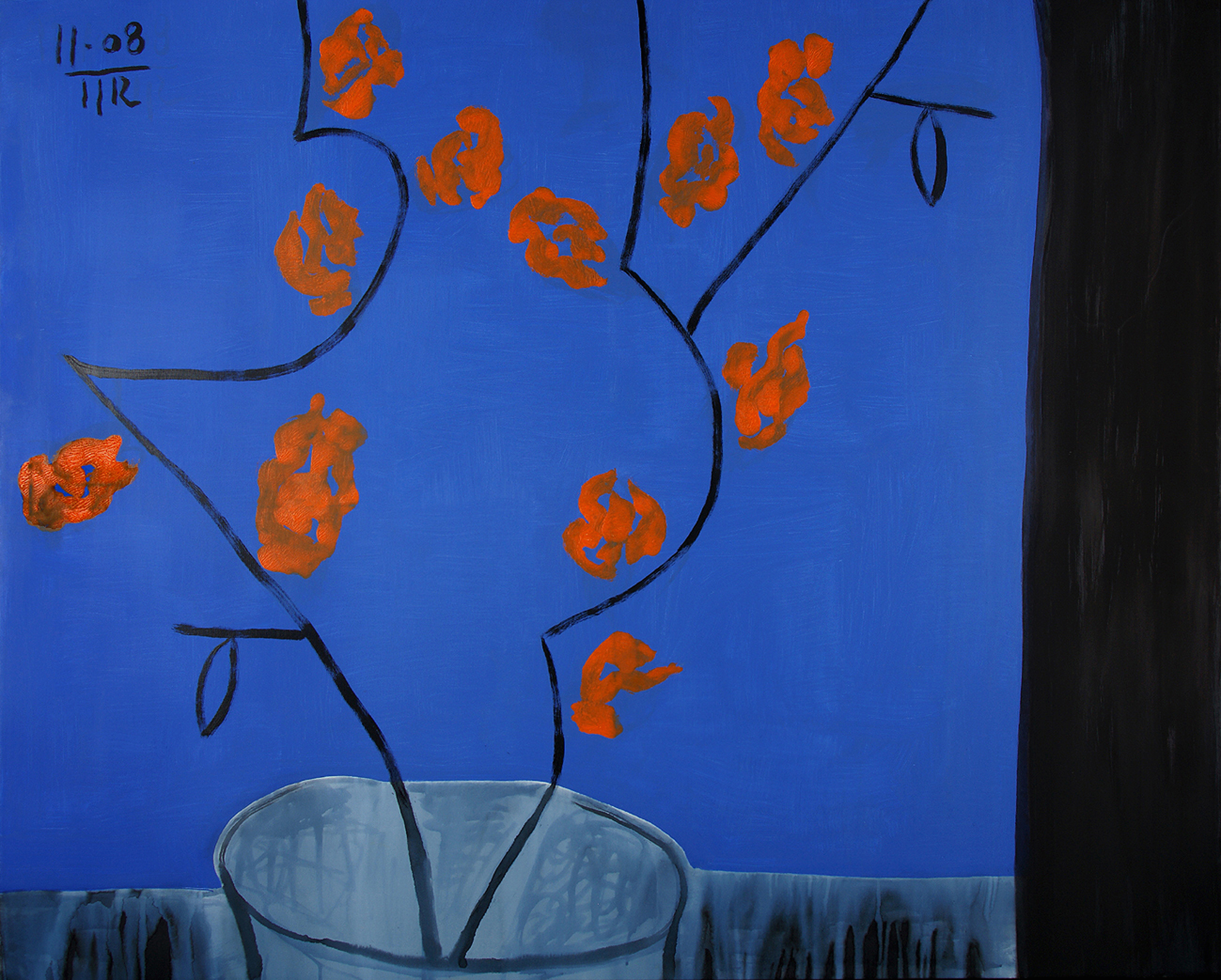 oil and ink on canvas, 47 1/4 x 59 in, 120 x 150 cm, Adam Adelson Collection, Boston